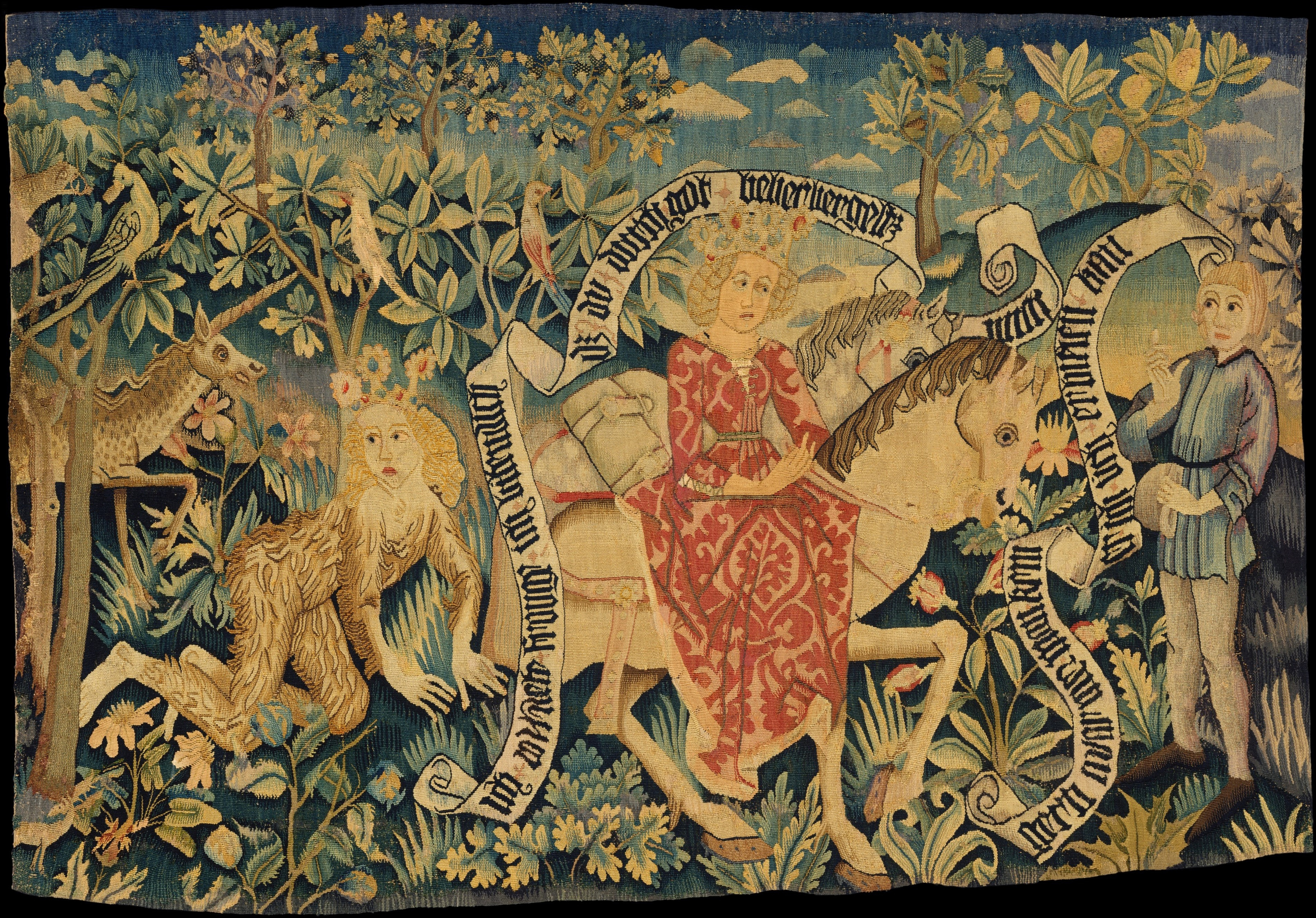 Linen tapestry showing two scenes from Der Busant, a Medieval poem